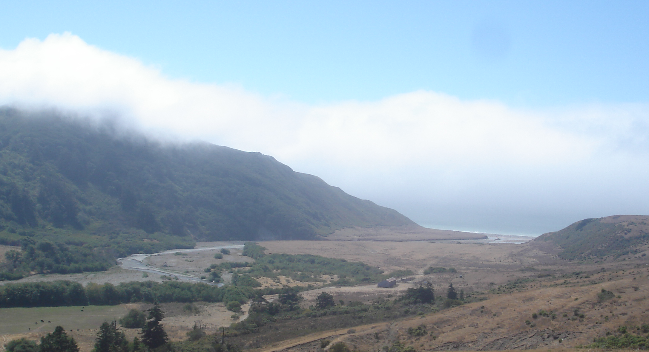 Fog creeping into the mouth of the Bear River, Humboldt County, California